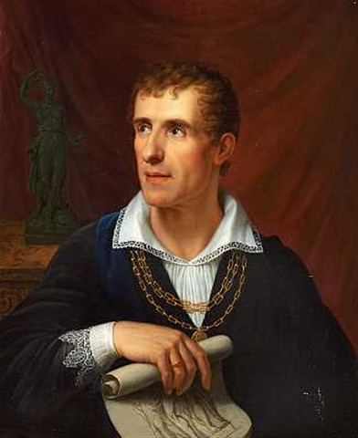 Rudolph Suhrlandt: Portrait of sculptor Antonio Canova dressed as member of St. Luke's academy and holding in his hand a drawing of his most famous sculpture The Three graces; oil on canvas; 29,5 x 23,6 in. / 75 x 60 cm.; 1812; sold at auction by Bruun Rasmussen Bredgade Copenhagen: April 18, 2007 [Lot 339] Auktion 770